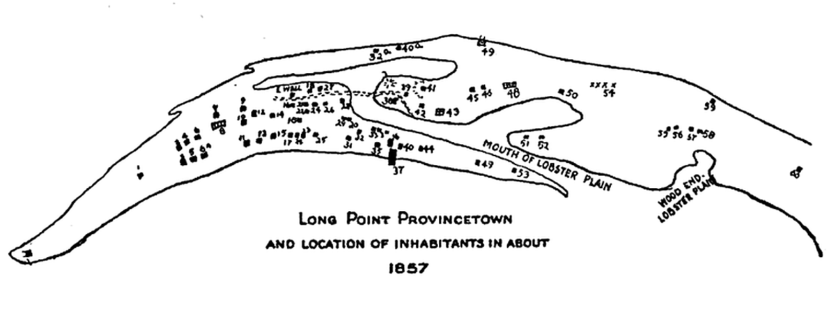 Map of Long Point, Provincetown, Massachusetts, circa 1857.